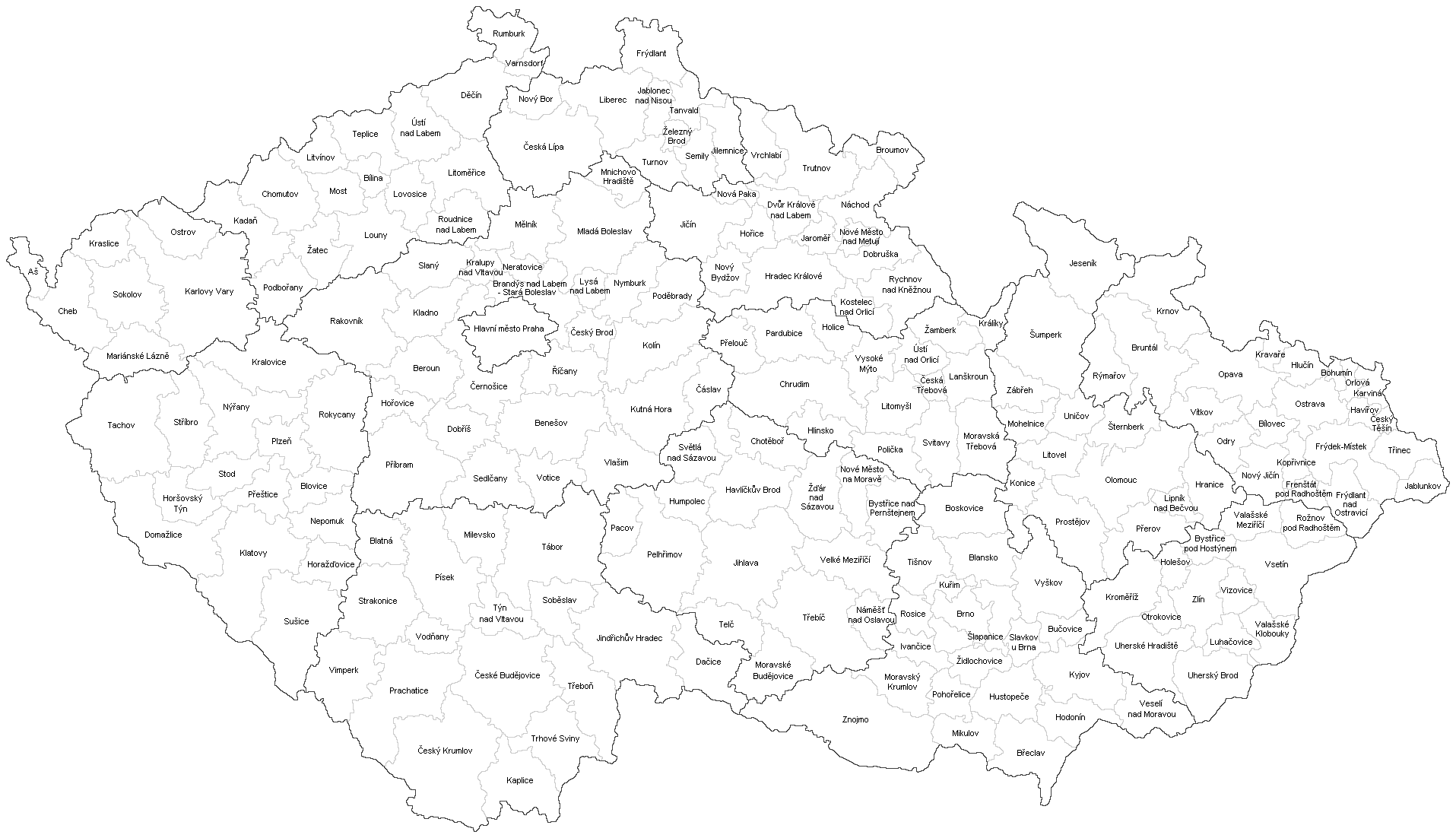 Map of small districts (districts of municipalities with extended powers) in The Czech republic (created by the model of districts)